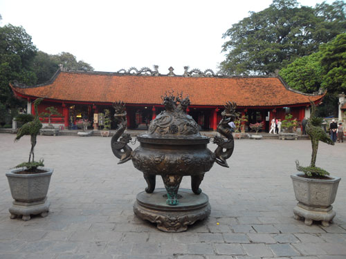 Temple of literature. Hanoi